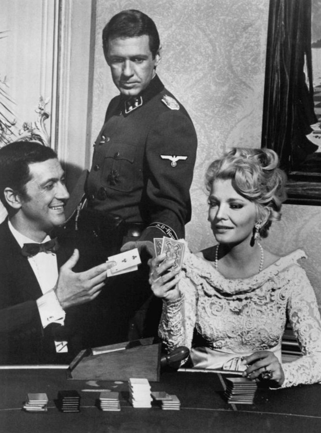 Photo of Cesare Danova, Ron Harper and Gena Rowlands from the television program Garrison's Gorillas.